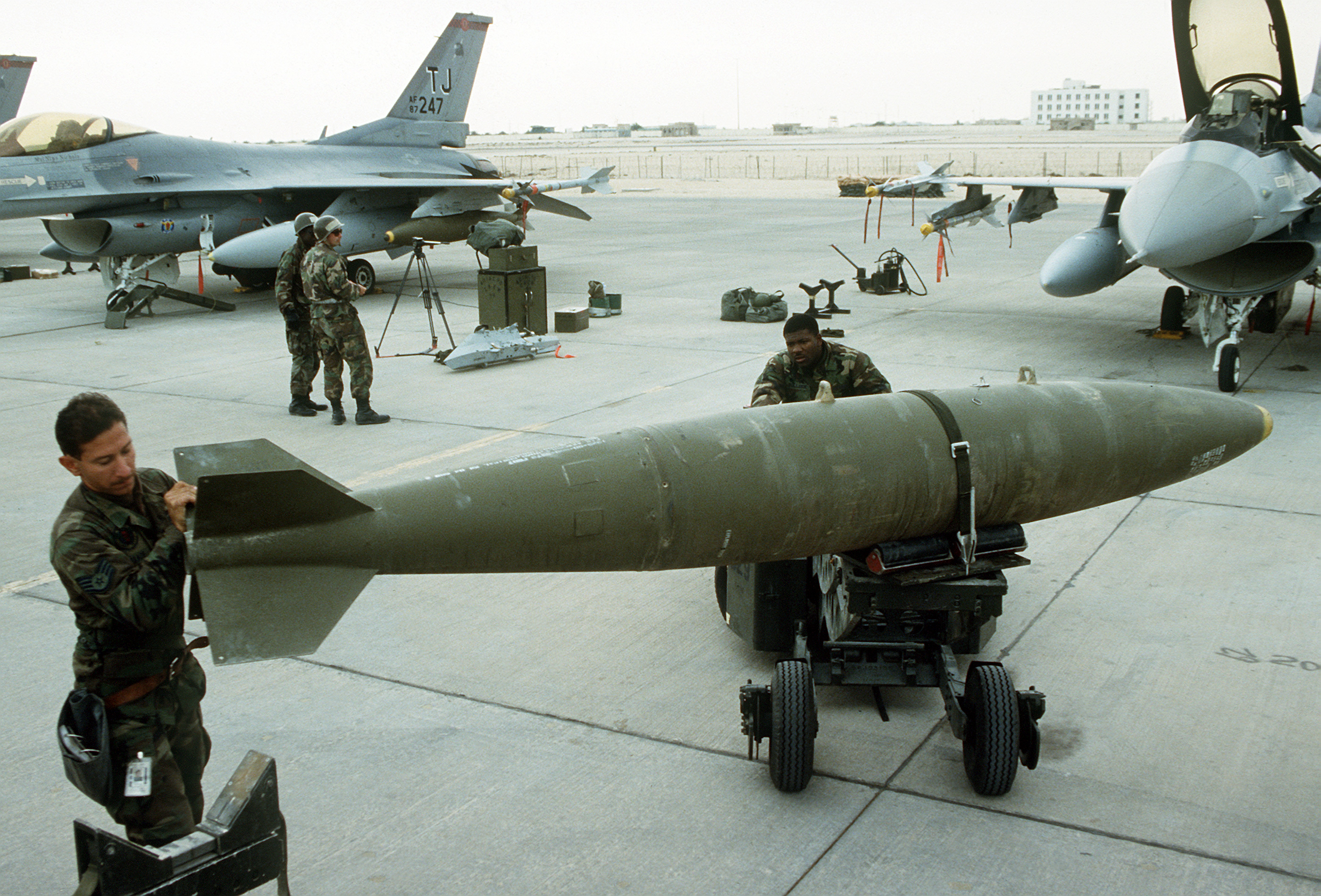 Members of the 401st Aircraft Generation Squadron, prepare to load MARK 84 2,000-pound bombs onto 401st Tactical Fighter Wing F-16 Fighting Falcon aircraft. The aircraft are being armed for the first daylight strike against Iraqi targets during Operation Desert Storm.